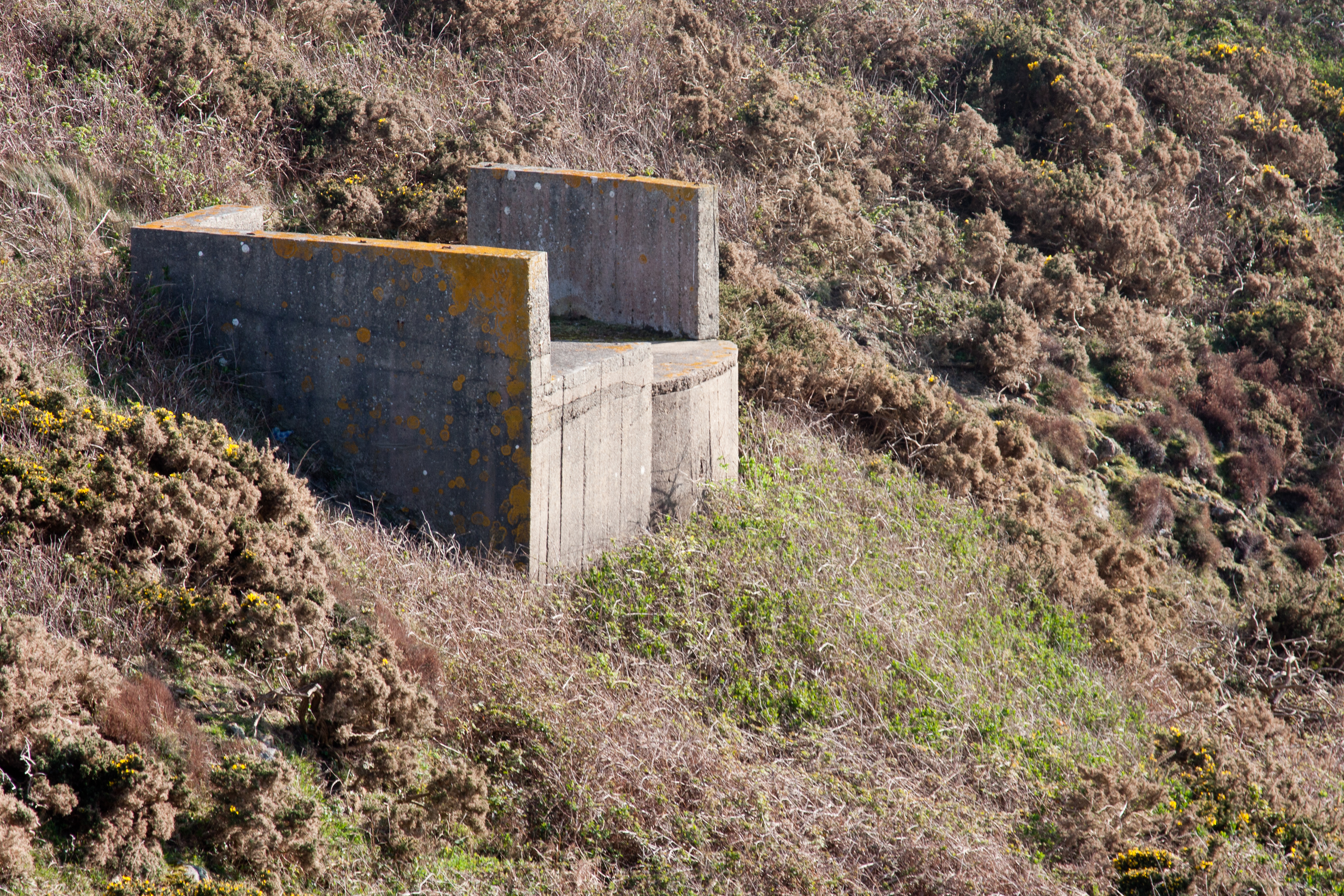 60cm search light platform.